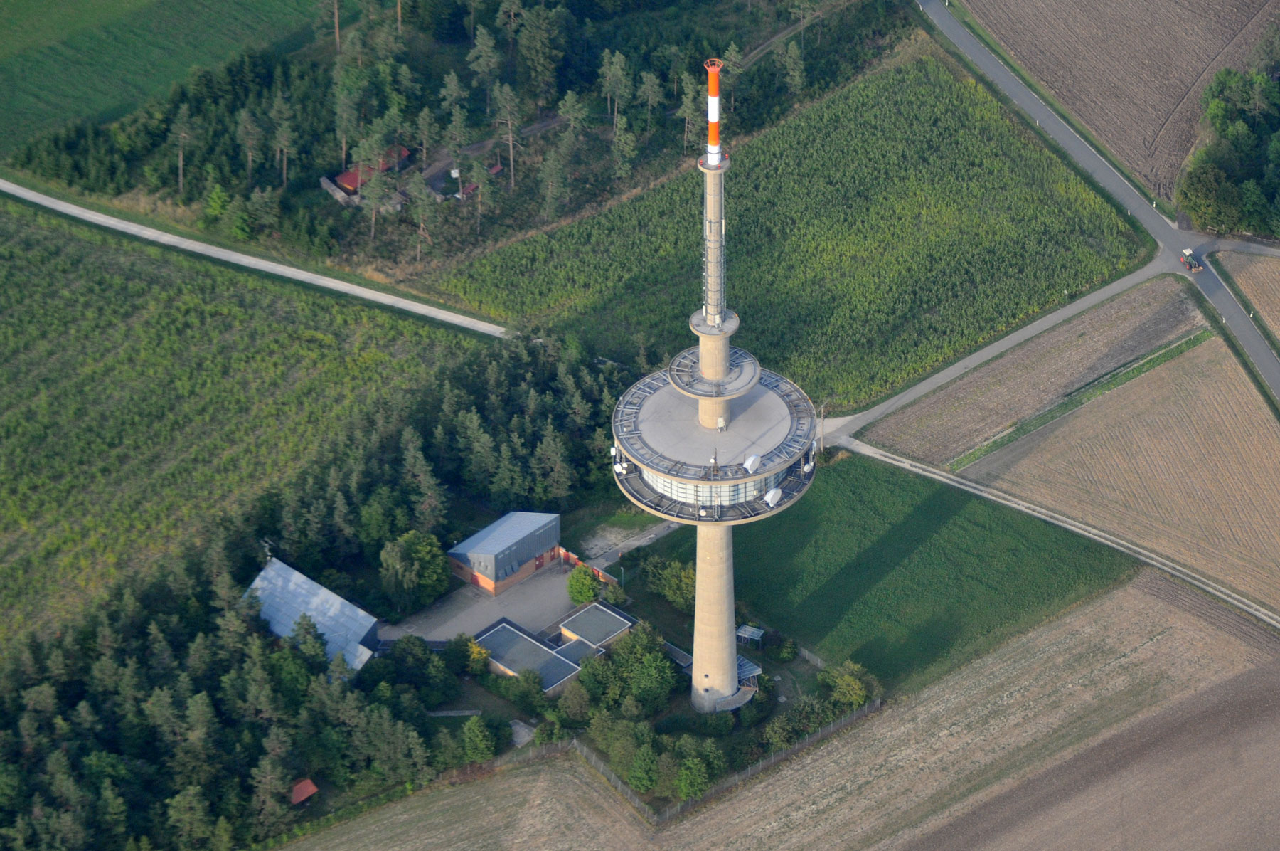 Aerial photography of Sender Bamberg (Kälberberg), a radio tower near Bamberg, Bavaria, Germany